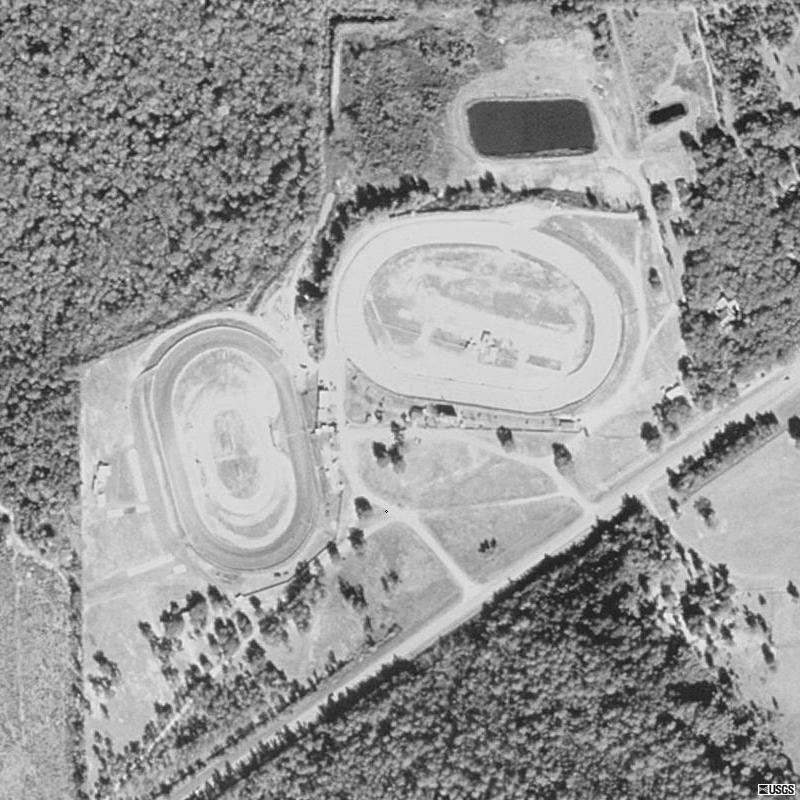 Aerial view of Volusia Speedway Park, in Barberville, Florida, United States